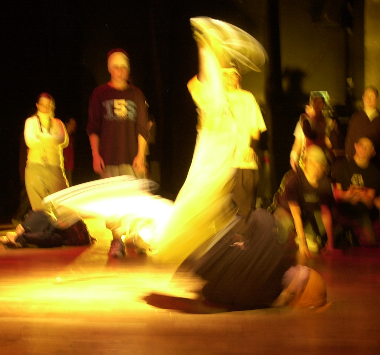 Classic power move, wind mill, performed by unknown in Kulturhuset, Stockholm